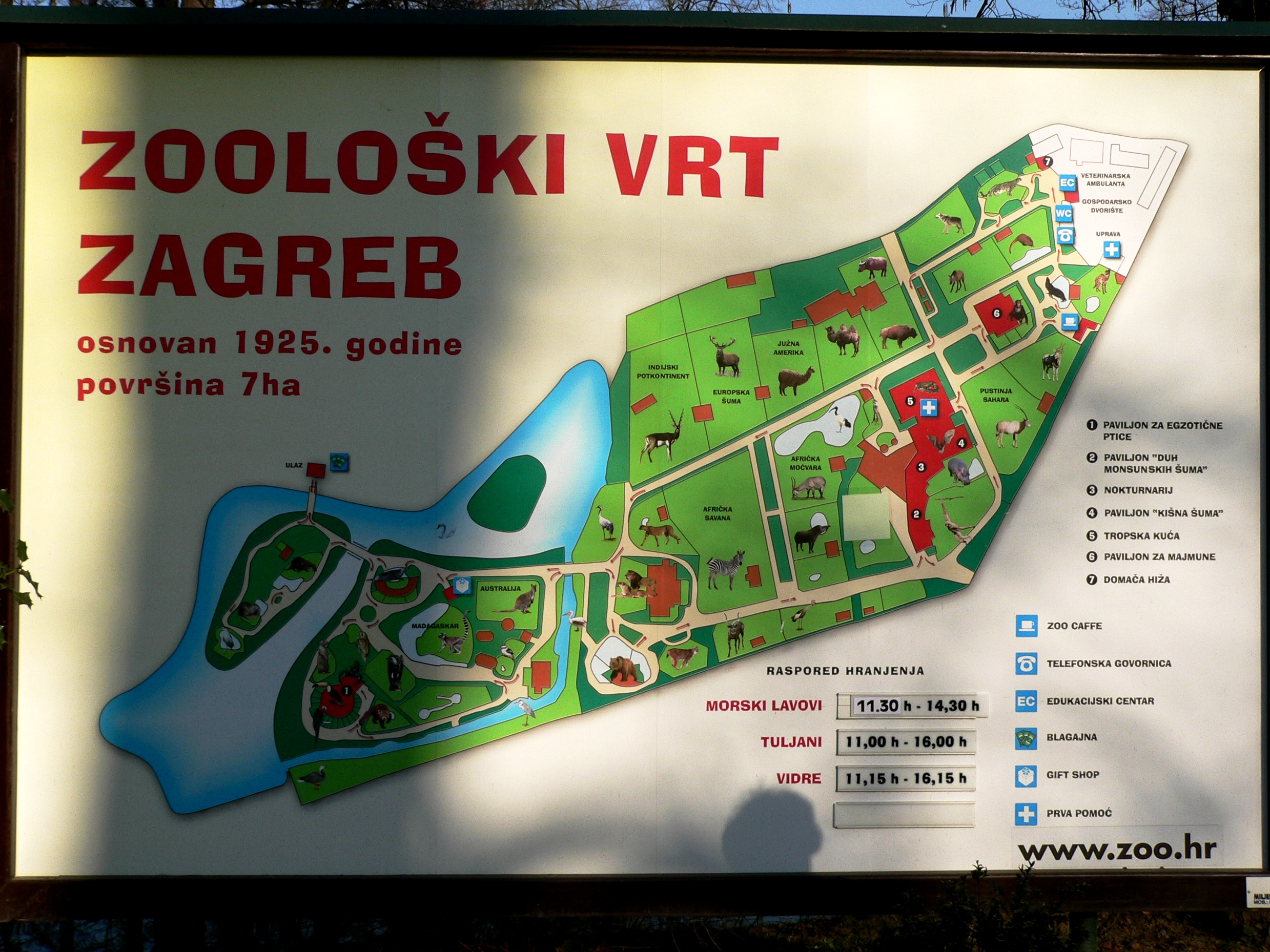 Map of the Zagreb Zoo